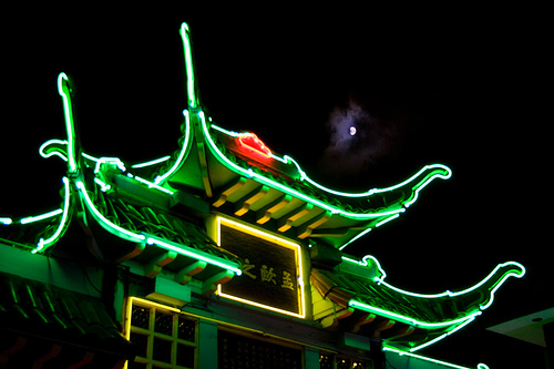 Neon tubing on Chinatown Central Plaza's main gateway.